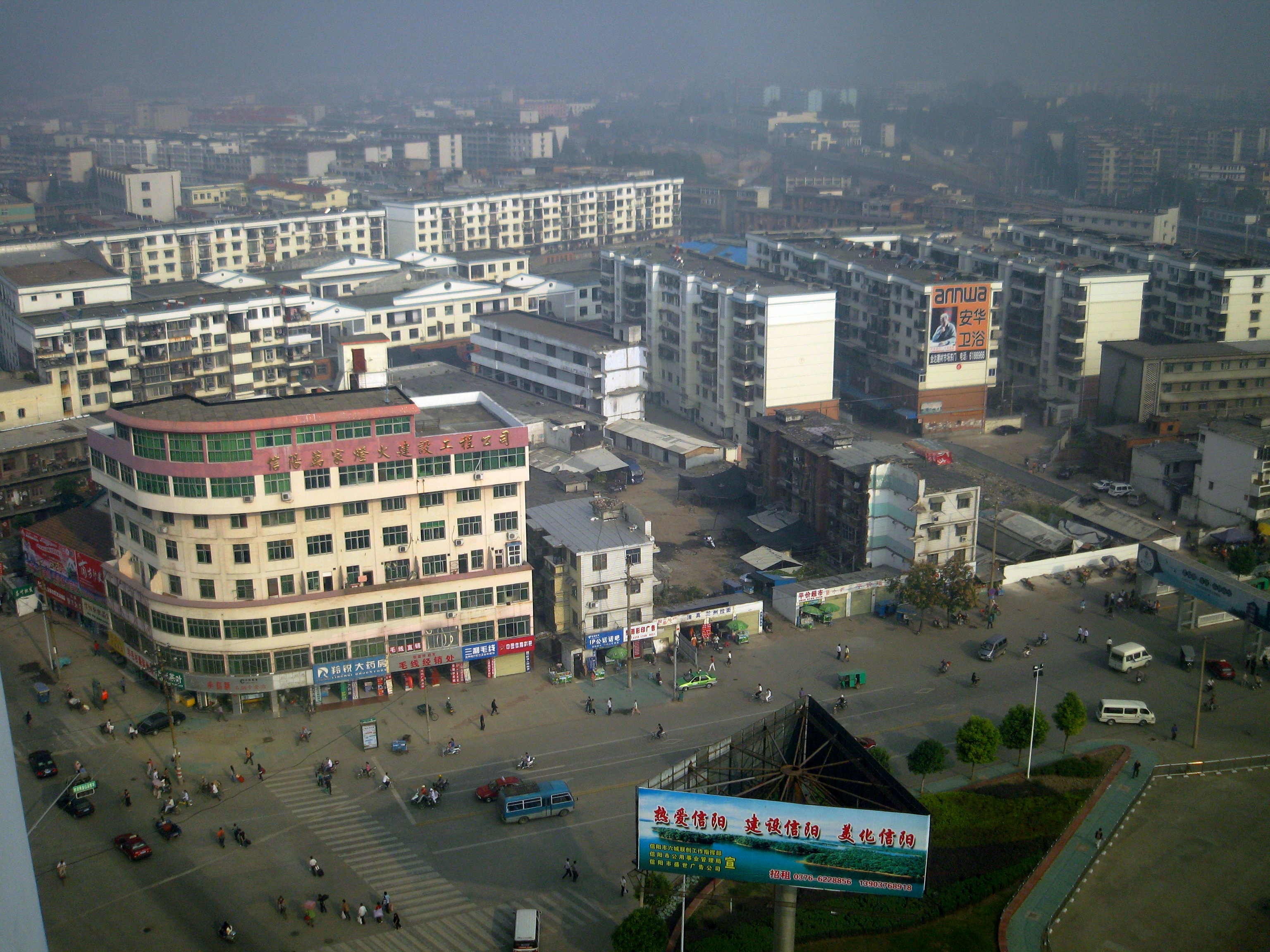 Taken from my 16th floor room in the only skyscraper in the city: A hotel.